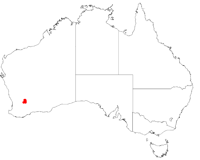 Conostylis albescens Occurrence data downloaded from Australasian Virtual Herbarium on 12 May 2017